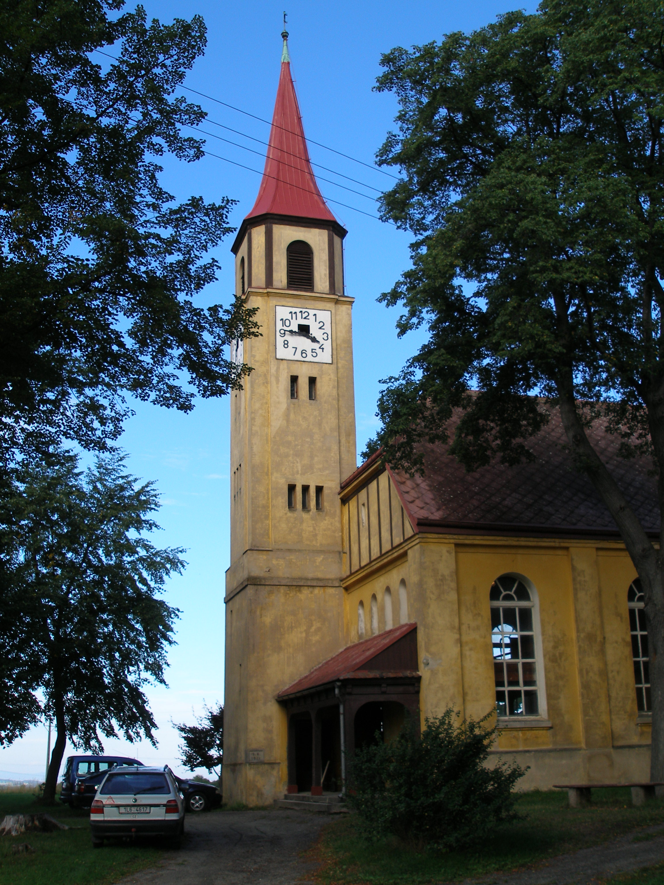 Nové Město pod Smrkem, tower of protestant church